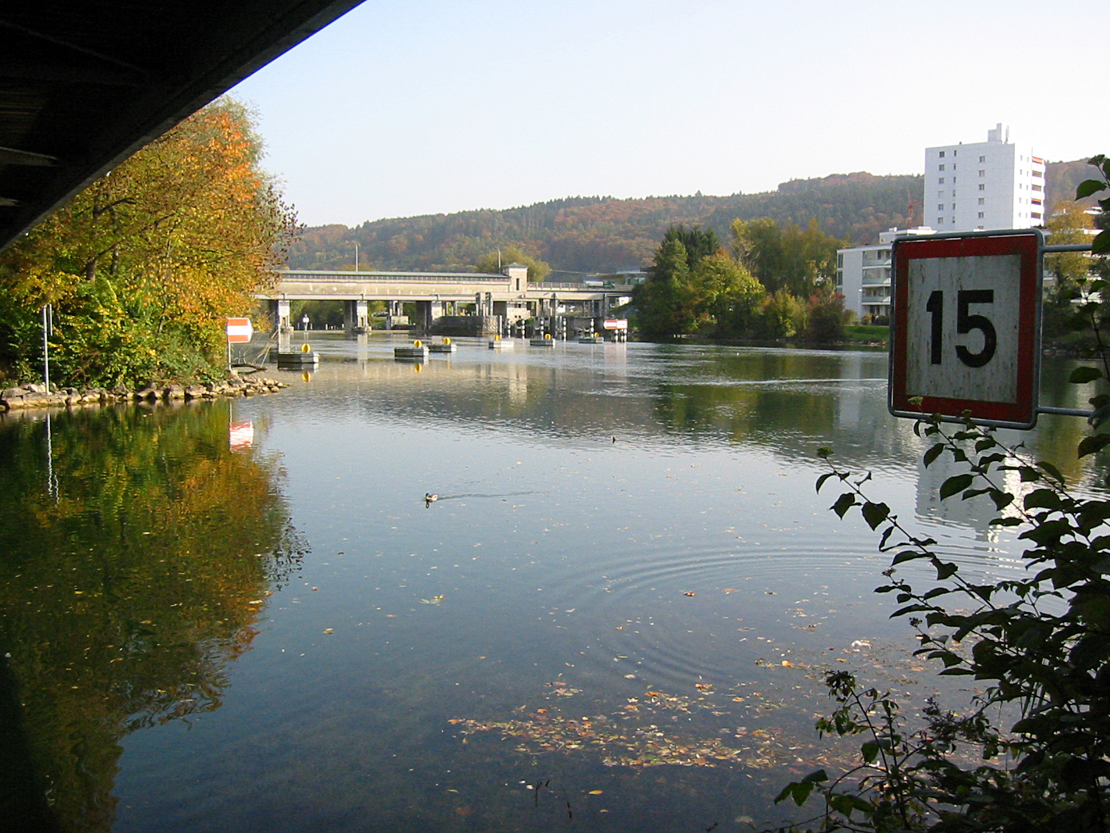 Weir at river Aar near Biel including a sluice and a power station, view from the Zihl canal outlet, sluice in center, in left front security buoys of head water; Port, Berne, Switzerland